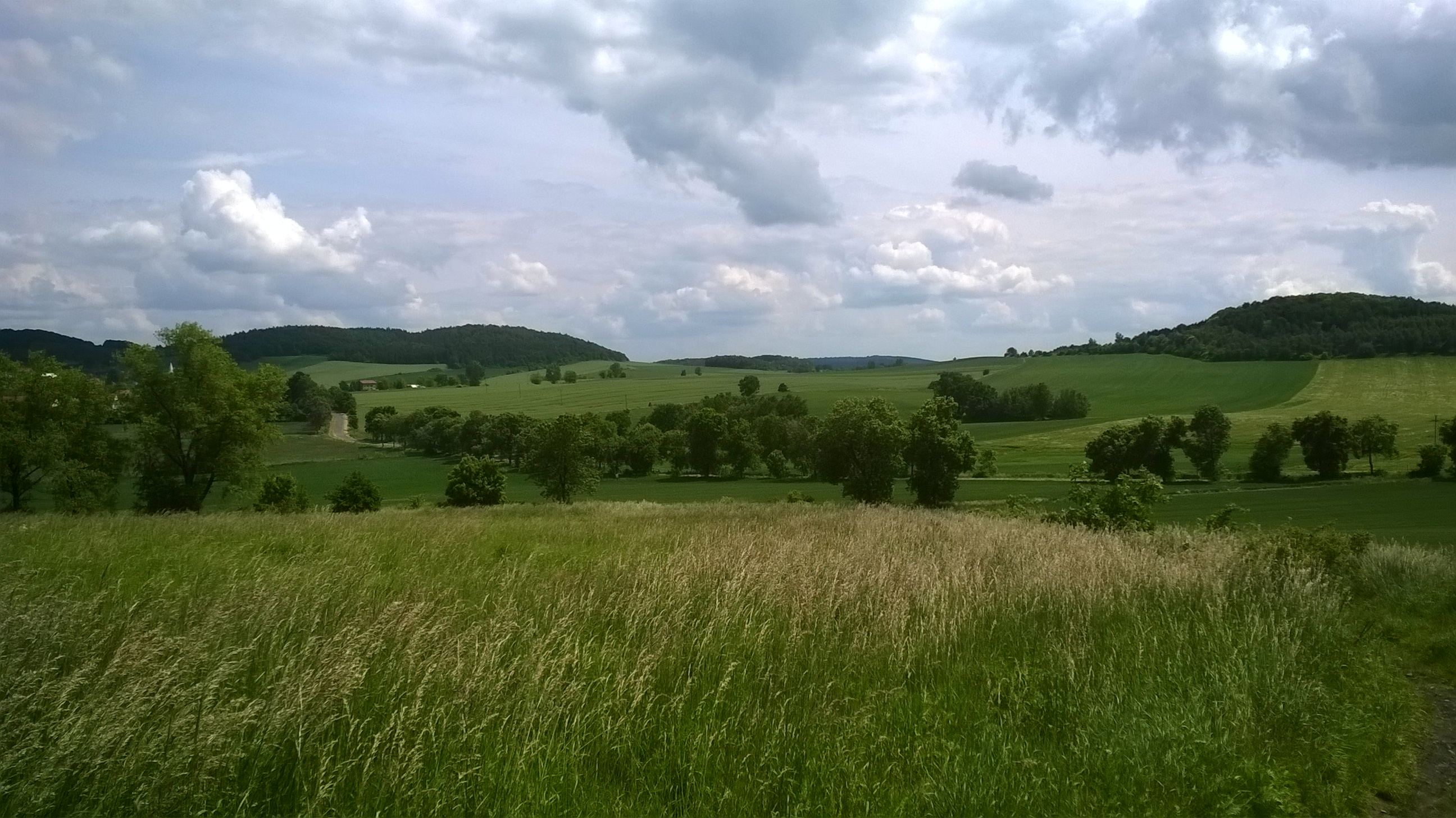 A field in the roztocznik village in poland.the pic was taken on 1 july 2014